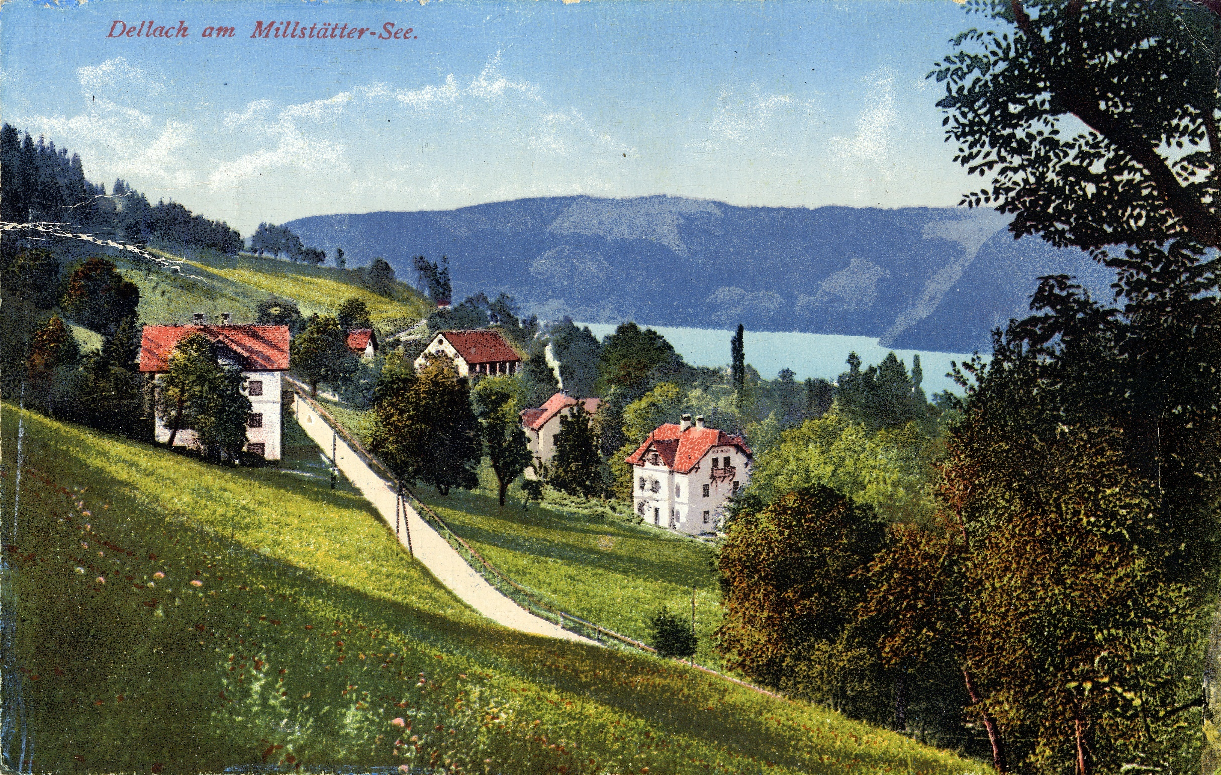 Dellach at Lake Millstatt in Carinthia / Austria / EU around 1910. Postcard inscription: “Dellach am Millstätter See”. In the middle of the picture you can see the former Gasthof Brugger.